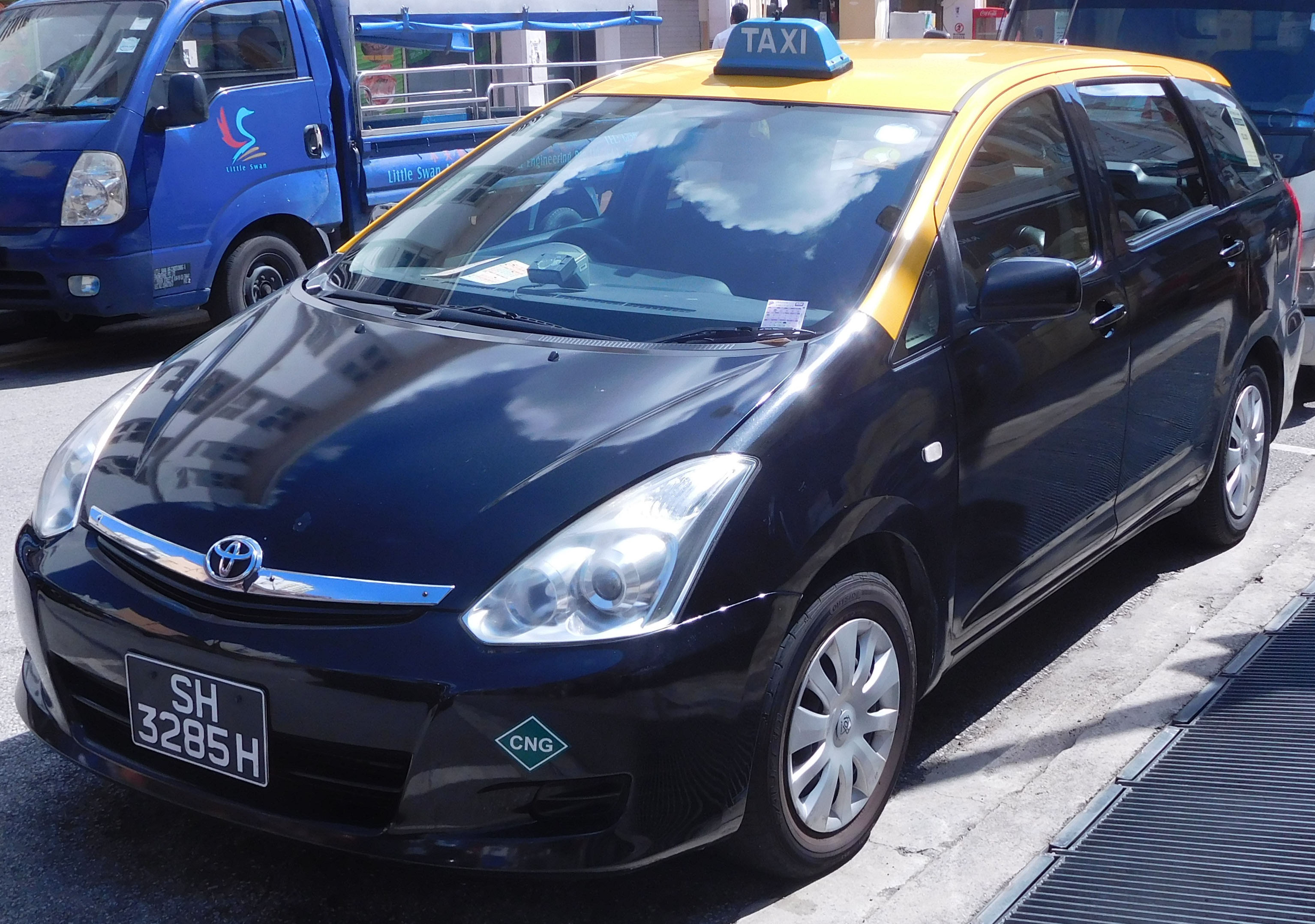 2008 Toyota Wish (ZNE10) 1.8 Yellow-Top Taxis. Photographed in Singapore. Vehicle registration enquiry resultsJurisdictionSingaporeRegistrationSH3285HChassis codeJTDER12W103000705Engine code1ZZ3134534Year of manufacture2008